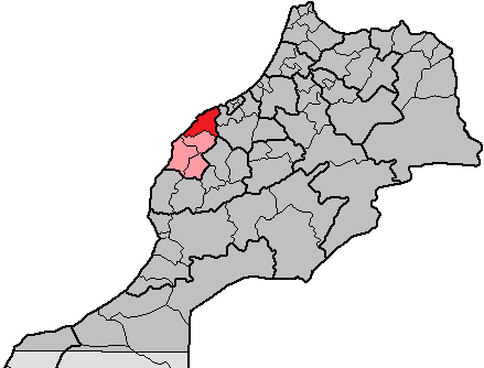 Location of the province El Jadida within the region Doukkala-Abda, Morocco. In total, Moroco has 16 regions, subdivided into 62 provinces and 13 prefectures.